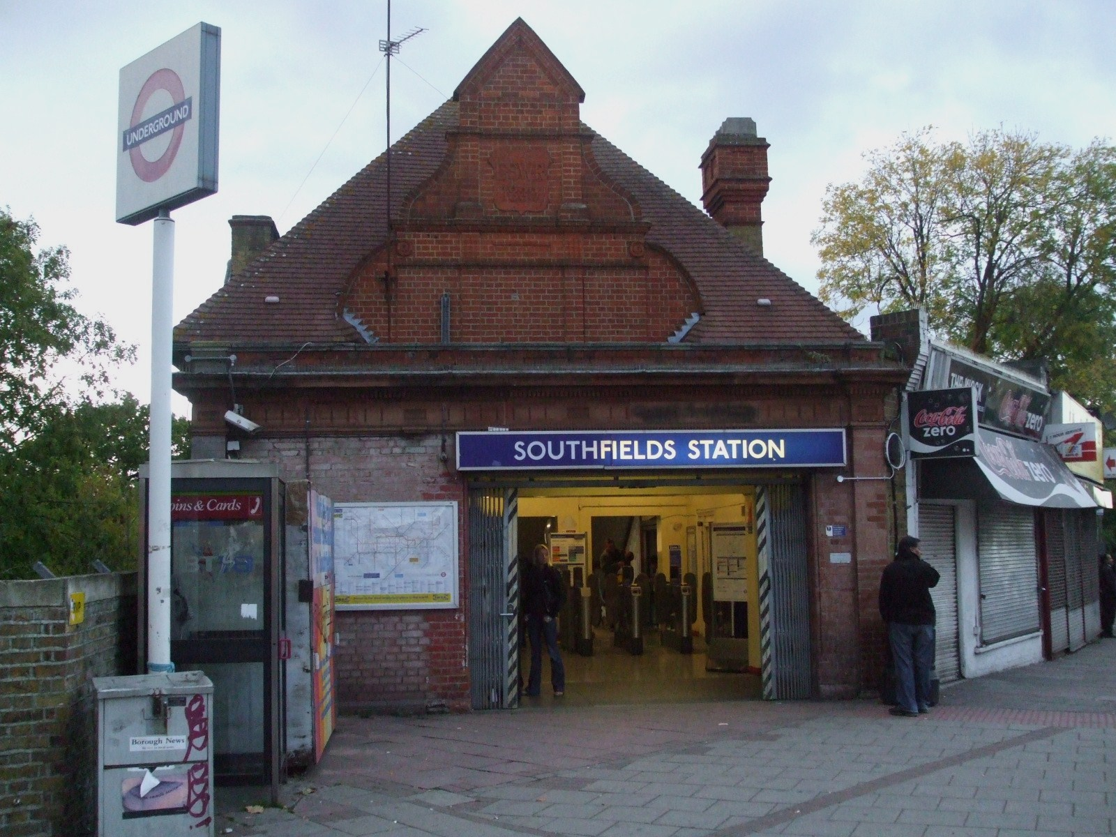 Southfields tube station building